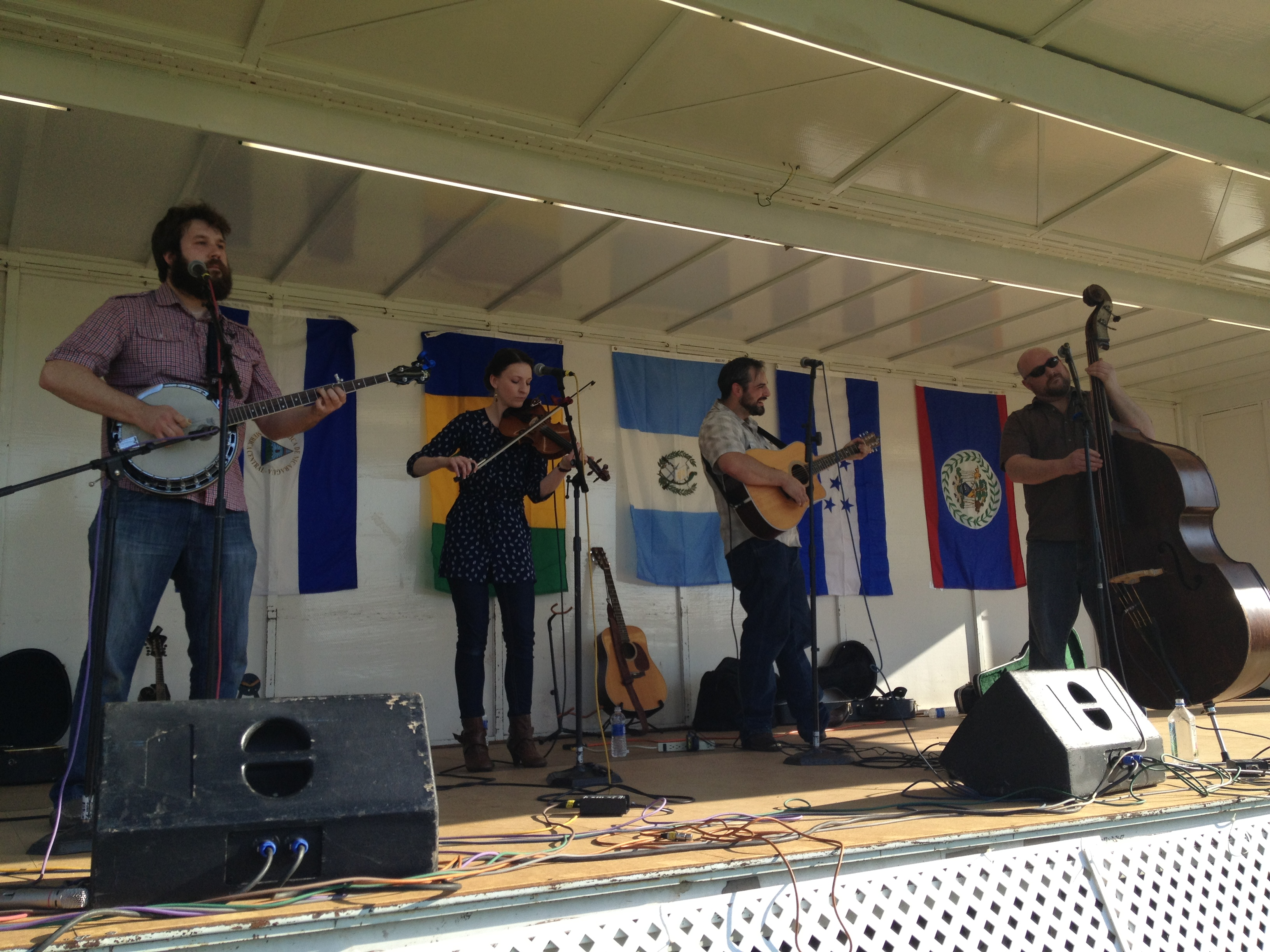 Pennsylvania thundergrass band HogMaw performs on the main stage at the 40th Annual New Jersey Folk Festival in New Brunswick, NJ, near the campus of Rutgers University on April 26, 2013. Pictured are Matt Baldwin (guitar), Colin Reeves (mandolin), Ryann Lynch (fiddle), and Johnny Calimari (upright bass).